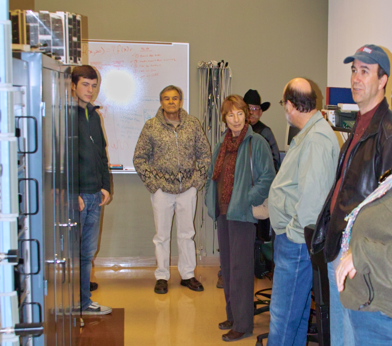 Gil and Helga DeLisle (center) on a tour of the Robert "Bob" Asprey Wireless Communications Laboratory at NMSU in 2008, with Asprey's friends and relatives (Erik Lyon, left; Tom Asprey, right; tour leader facing away; more partially obscured).